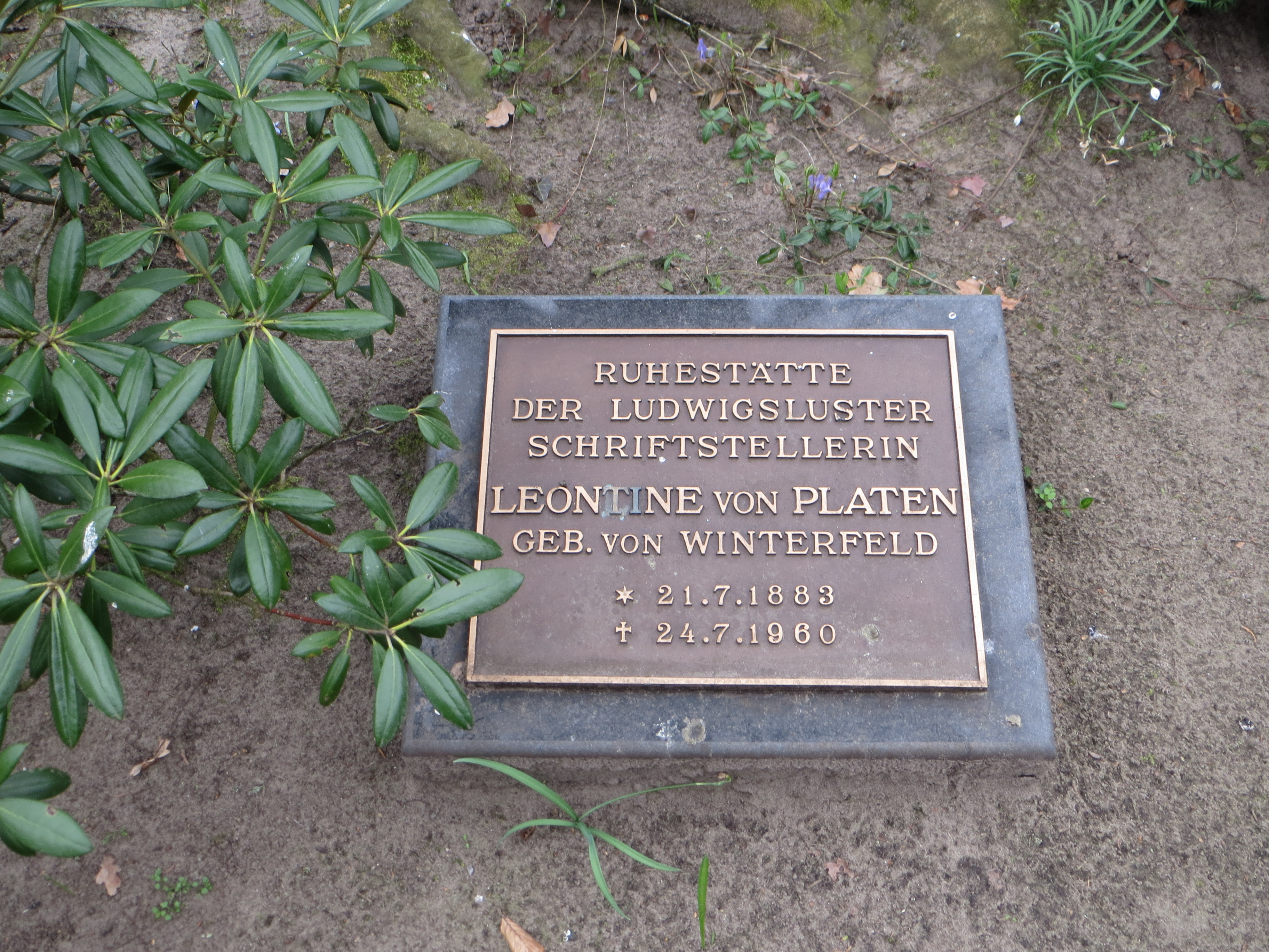 Friedhof Ludwigslust